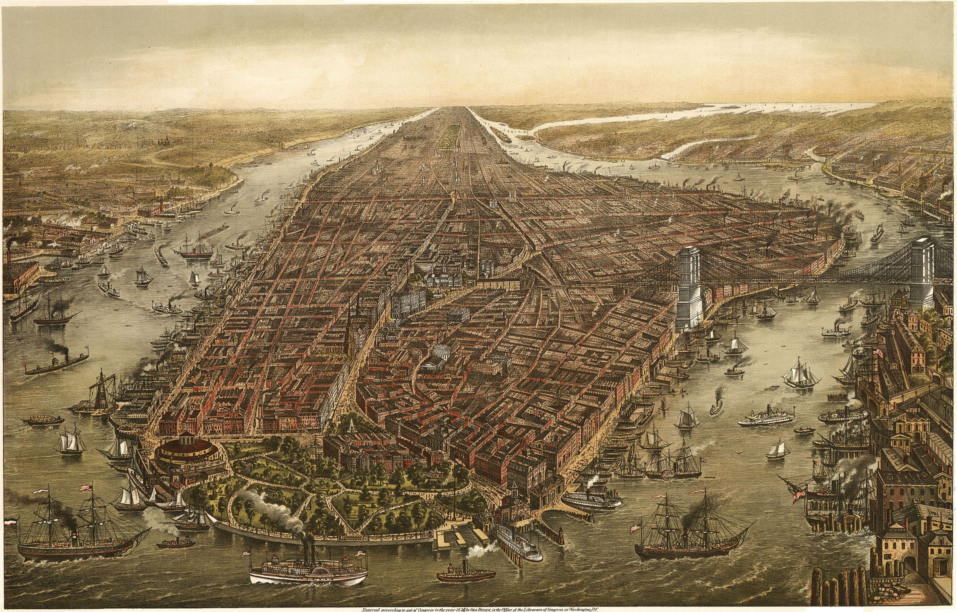 Bird's eye panorama of Manhattan & New York City in 1873. The Brooklyn Bridge is obviously inaccurate as the bridge wouldn’t be completed for another 10 years.